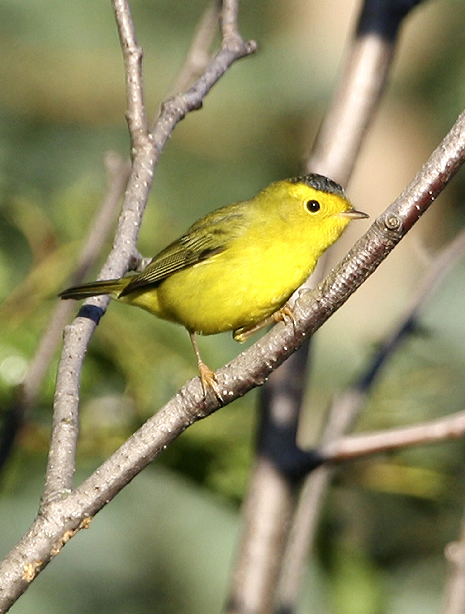 Wilson's Warbler (Wilsonia pusilla)